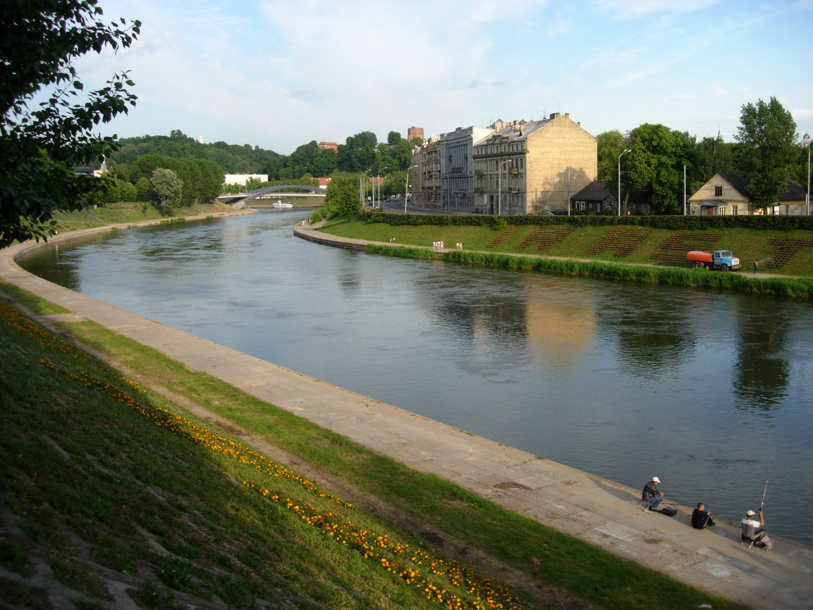 Neris River at Green Bridge in Vilnius, Lithuania. There are two red texts on each side of the river near the Green Bridge made by Vilnius citizens using flowers. On one side there is "Aš tave myliu" (I love you) and on the other "Ir aš tave" (Me too).